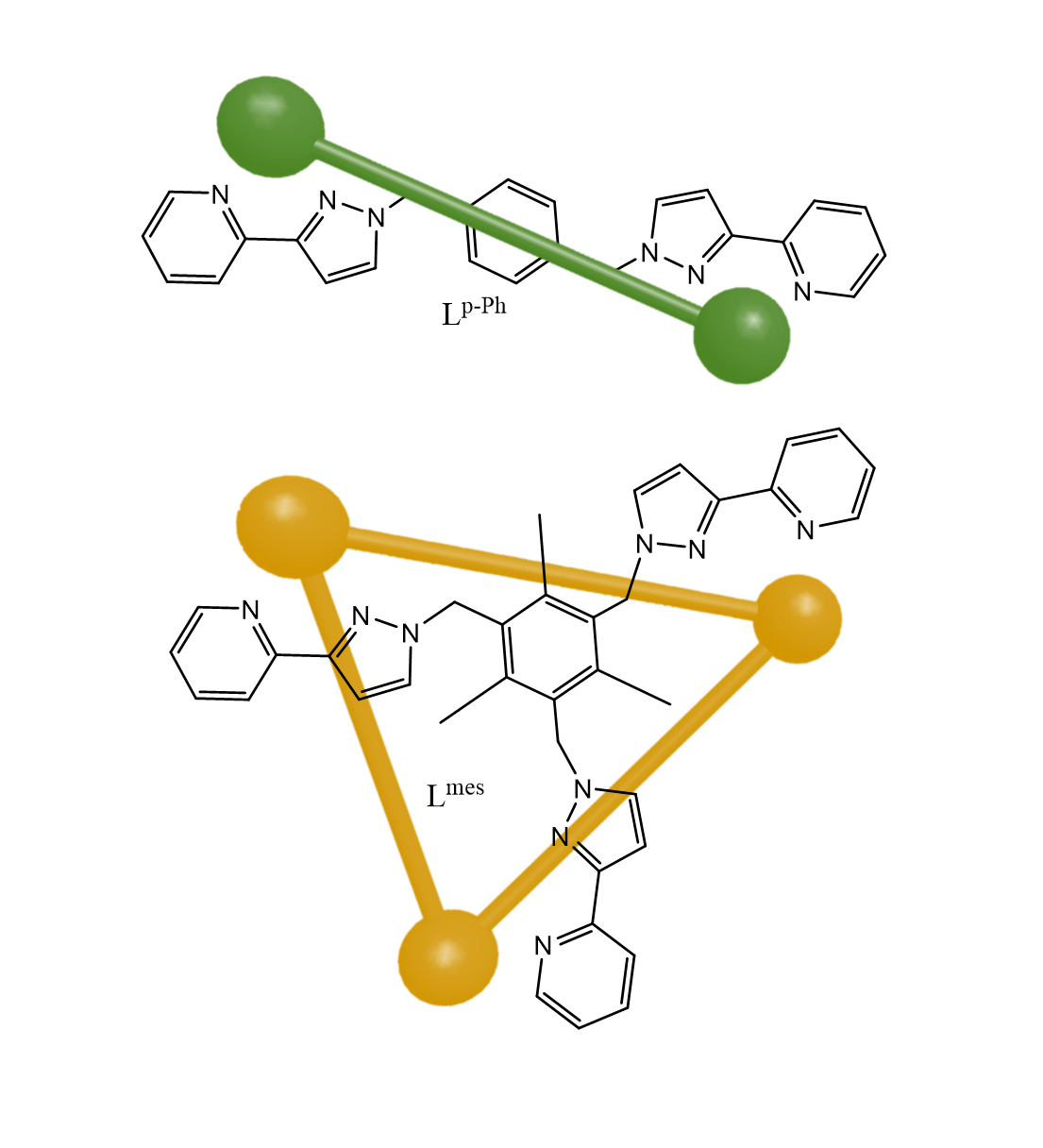 A chemdraw drawing and a cartoon illustrating metal binding sites of the L-pPh and L-mes ligands. The coordination cages these can create are studied here: 10.1002/9783527622504.ch9